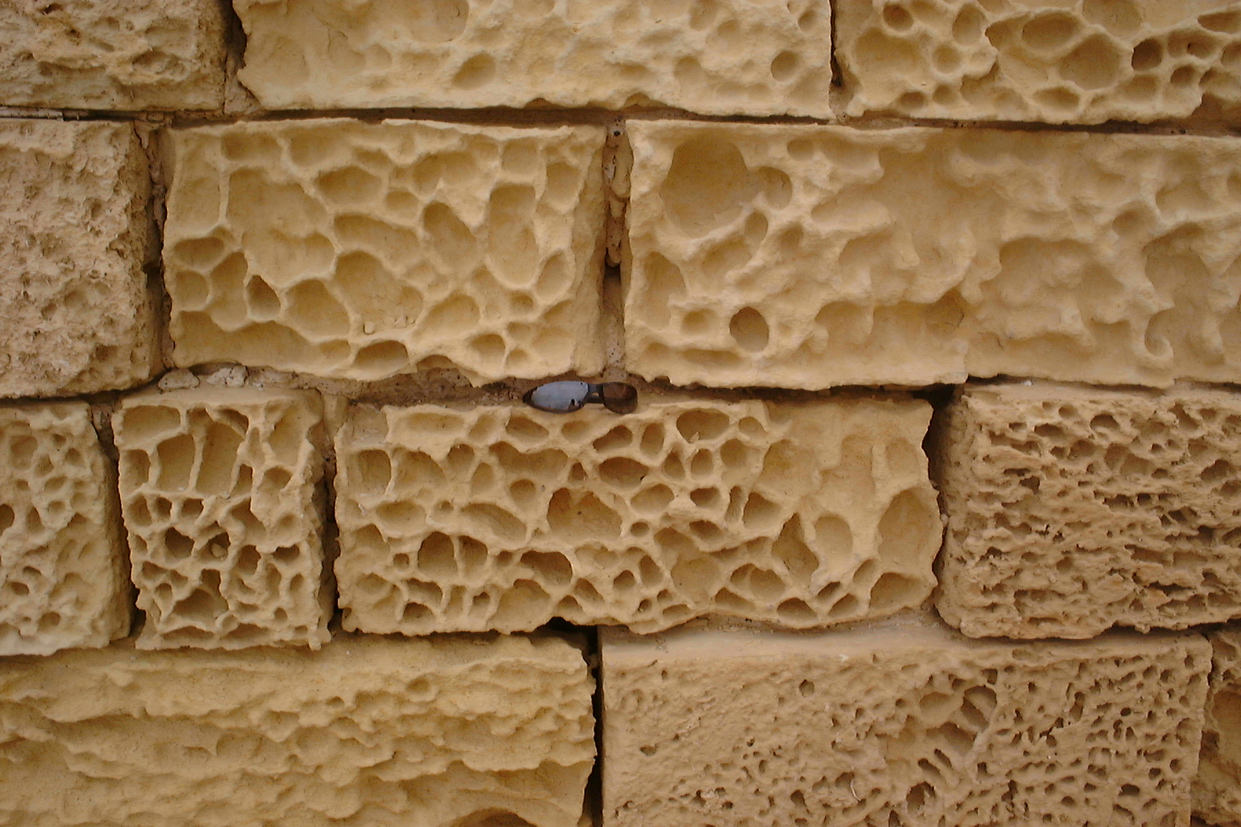 Tafoni-like salt weathering of building stone on the island of Gozo, Malta.